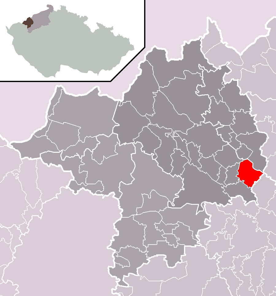 Location of Bílence municipality within Chomutov District and administrative area of Chomutov as a Municipality with Extended Competence.